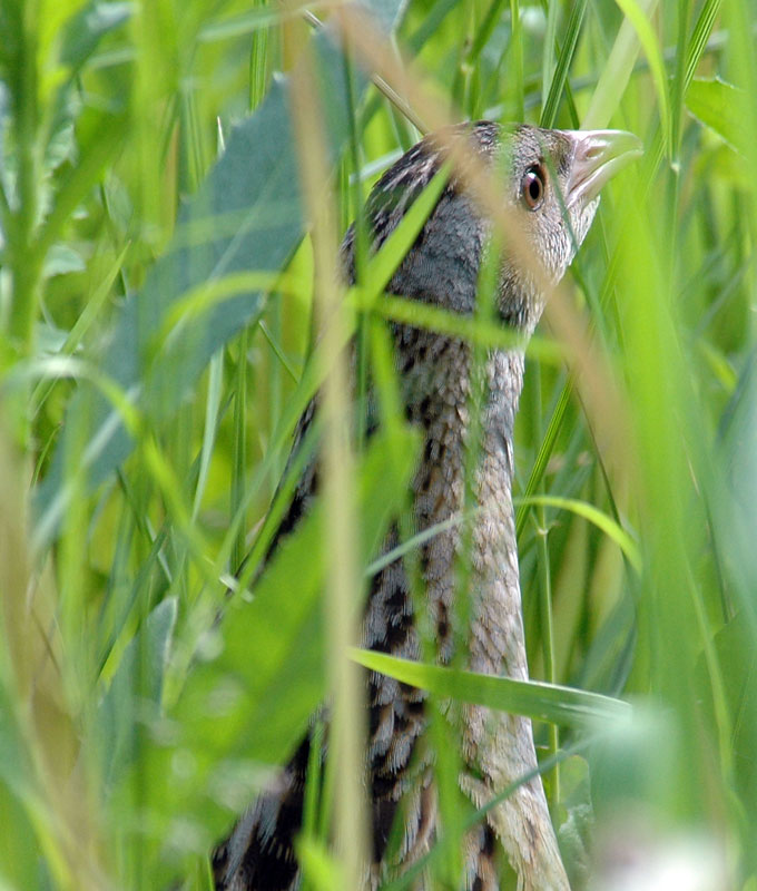 Corn Crake - Crex crex Russia, Moscow region, Nagornoe, 06/18/2006